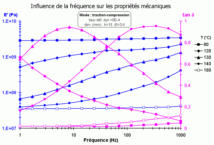 Effects of frequency and temperature on a viscoelastic material (epoxyde adhesive) using DM(T)A technique. Double frequency/temperature sweep test on two viscoelastic properties (storage modulus E’ and loss factor tan δ).